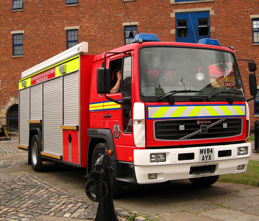 A Fire Engine of the Greater Manchester Fire and Rescue Service. Photo by G-Man * July 2006